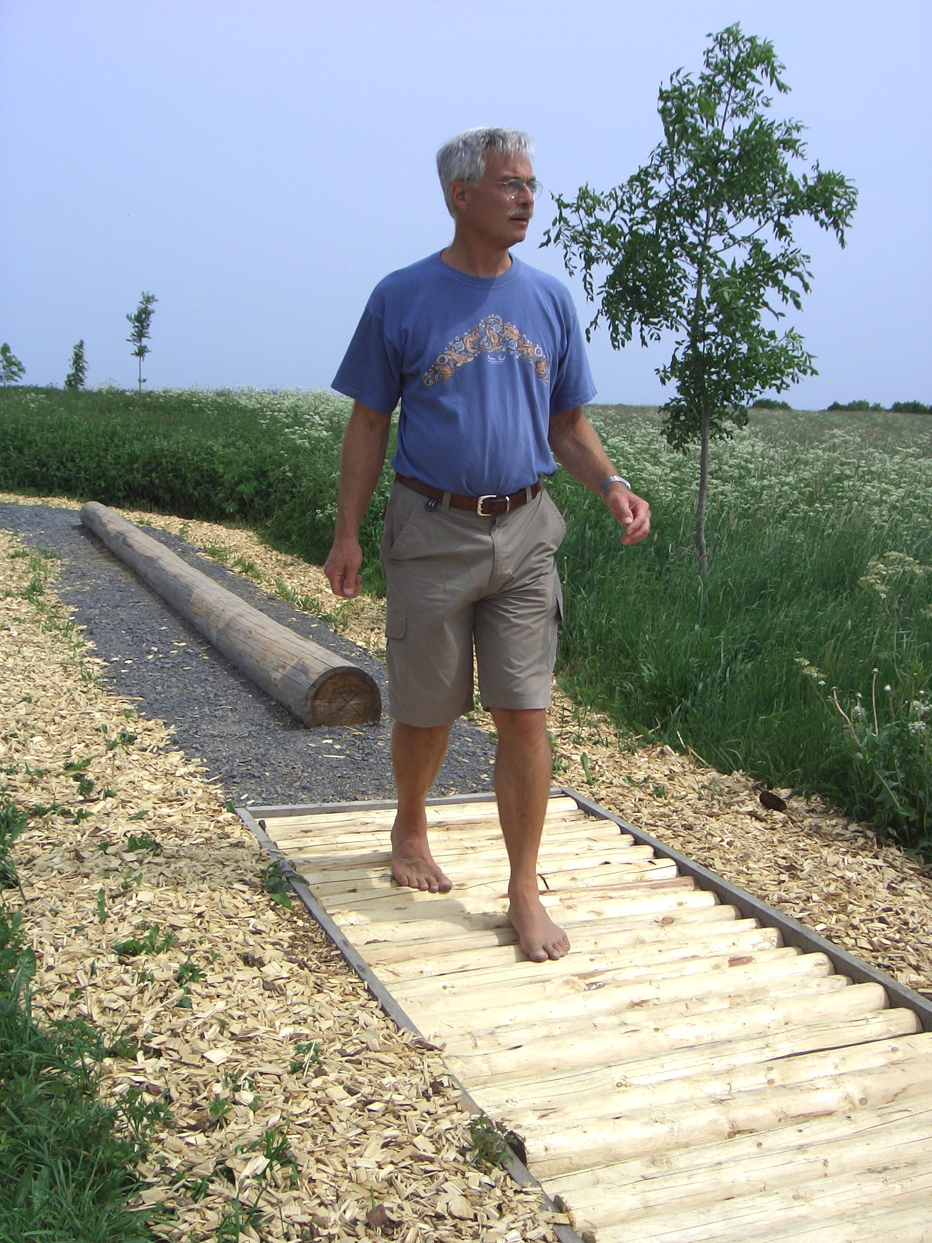 Barefoot trail Frankenheim, Germany